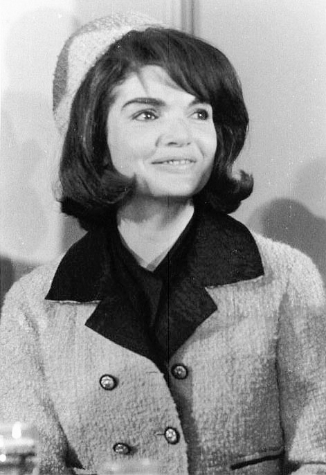 Jacqueline Kennedy in Fort Worth, Texas, on Friday morning, November 22, 1963 (The photo was taken during the Fort Worth Chamber of Commerce Breakfast, in honor of the Kennedys, inside the Hotel Texas, downtown Fort Worth.)